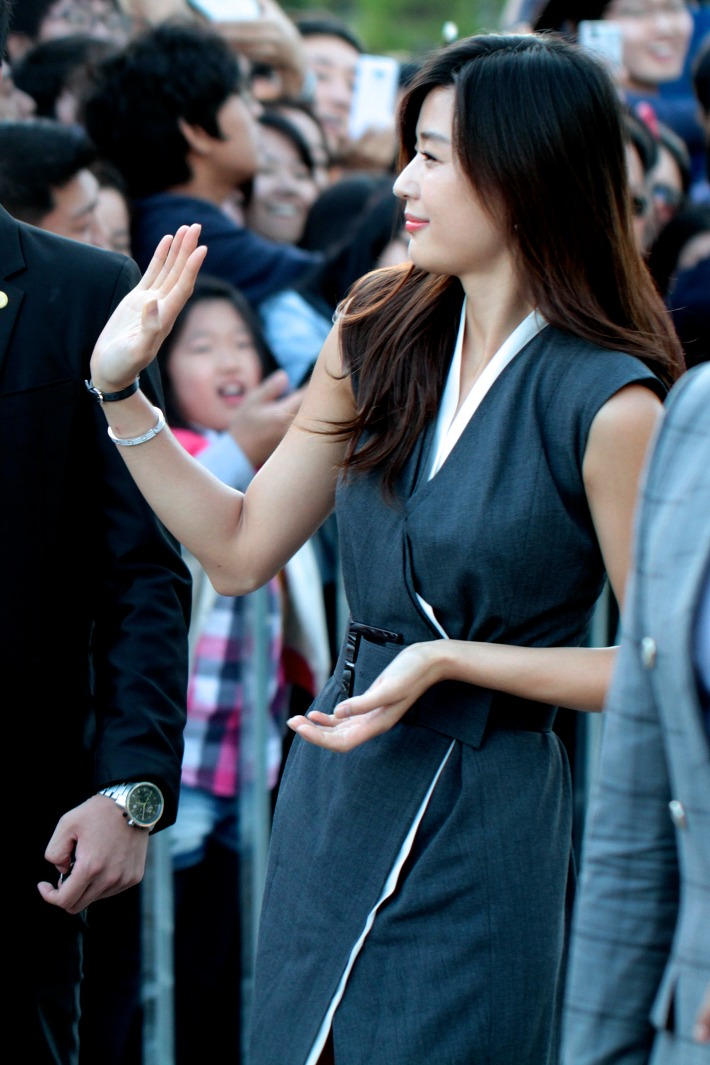 Jun Ji-hyun at Busan International Film Festival, 2012 October 7.